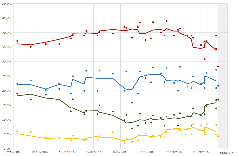 A graph of selected opinion polls for the 2016 South Korean legislative election, with moving average trend lines. Saenuri Party Minjoo Party of Korea People's Party Justice Party